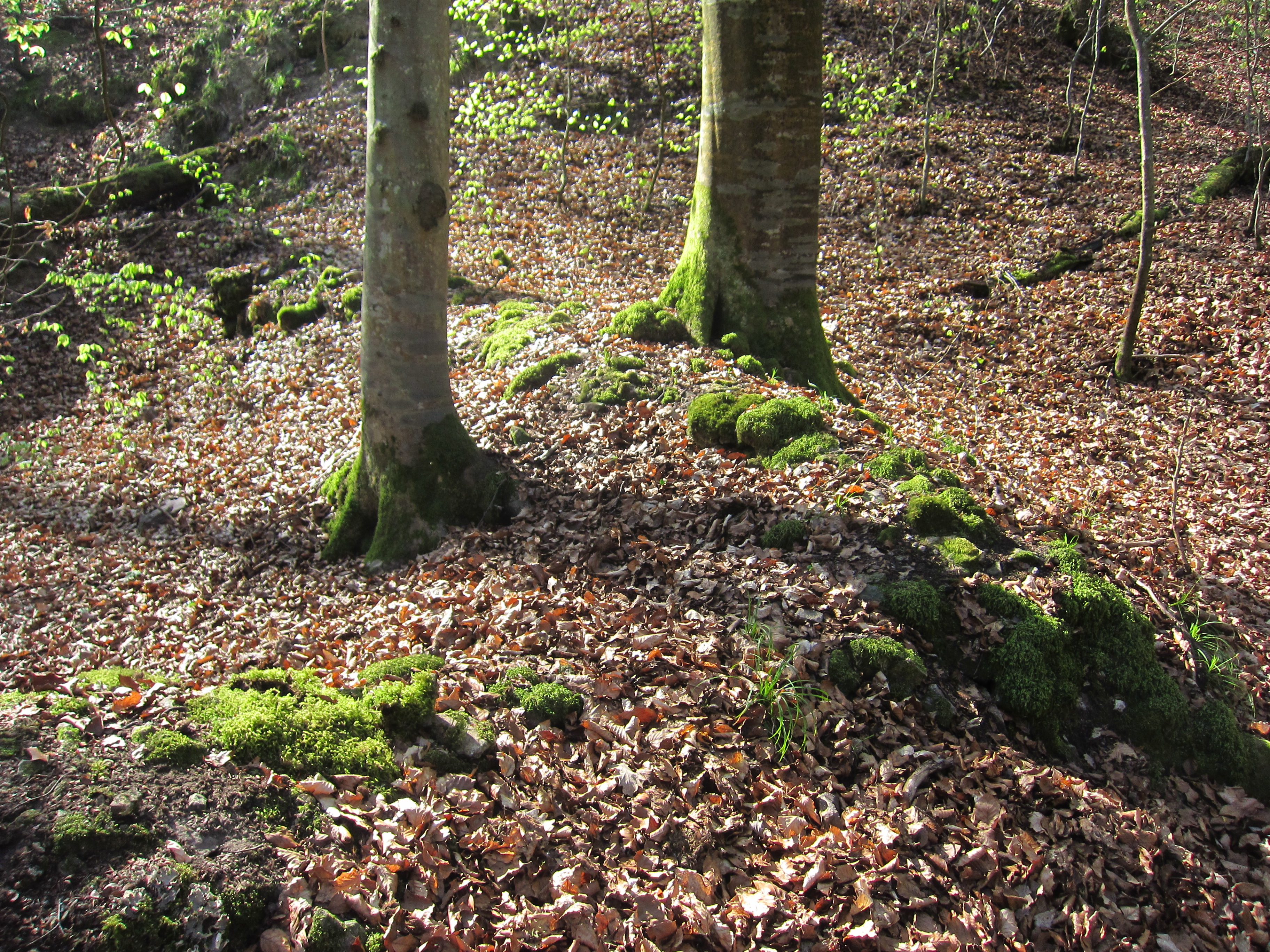 Kastenbuck Castle, northwestern corner of the former building (looking southwards), the southwestern corner is located back left